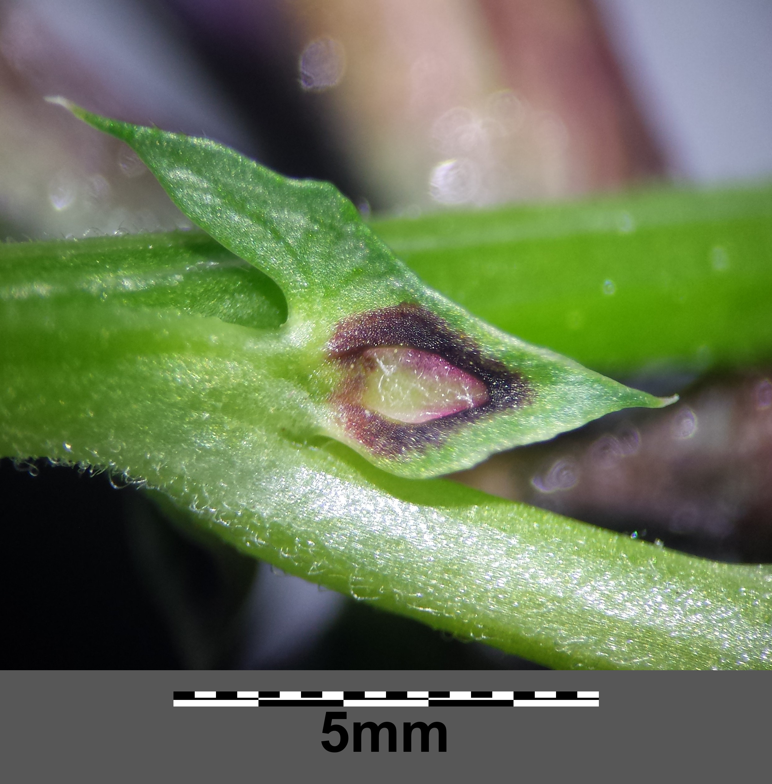 Stem with stipule with nectary Taxonym: Vicia sepium ss Fischer et al. EfÖLS 2008 ISBN 978-3-85474-187-9 Location: Rohrwald, district Korneuburg, Lower Austria - ca. 260 m a.s.l. Habitat: glade